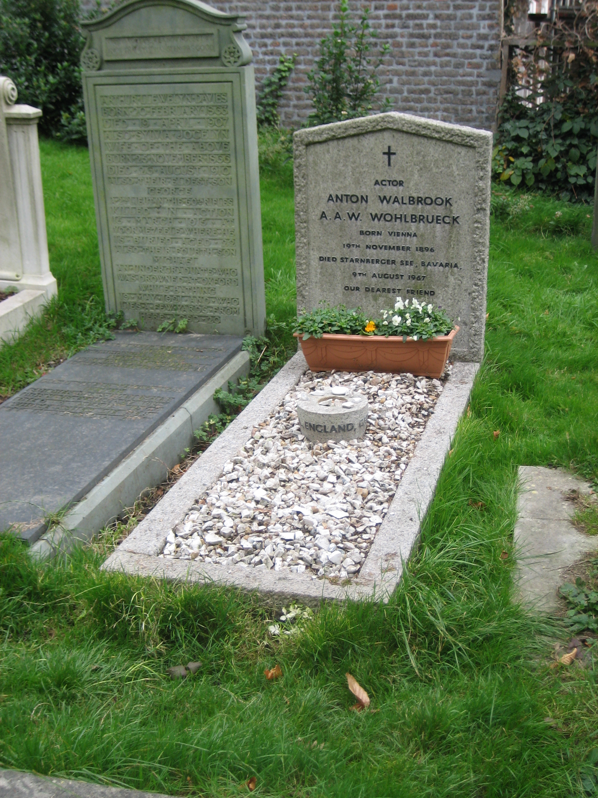 Grave of Anton Walbrook in Hampstead Cemetery, London